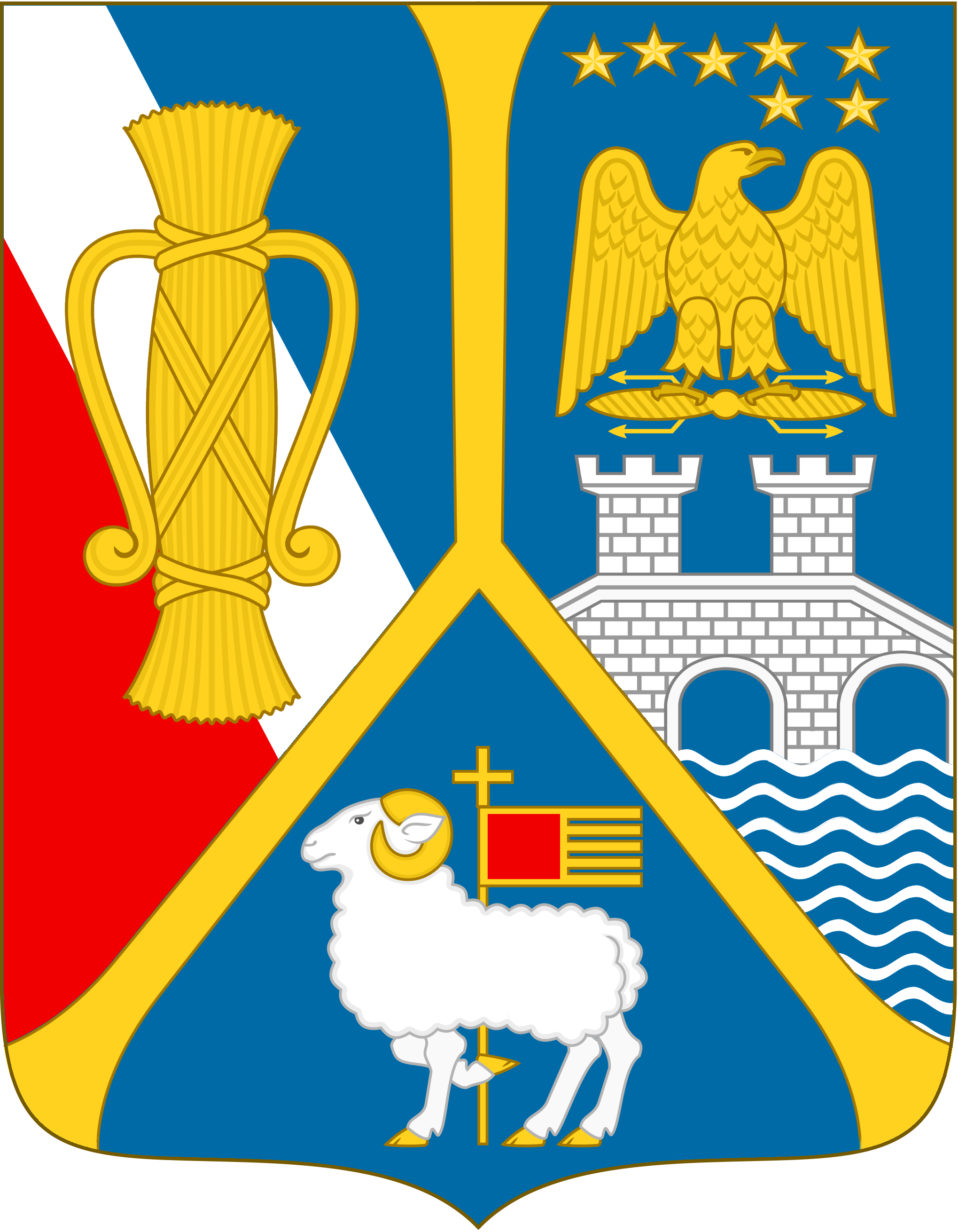 Arms of the House of Bernadotte as counts of Wisborg.